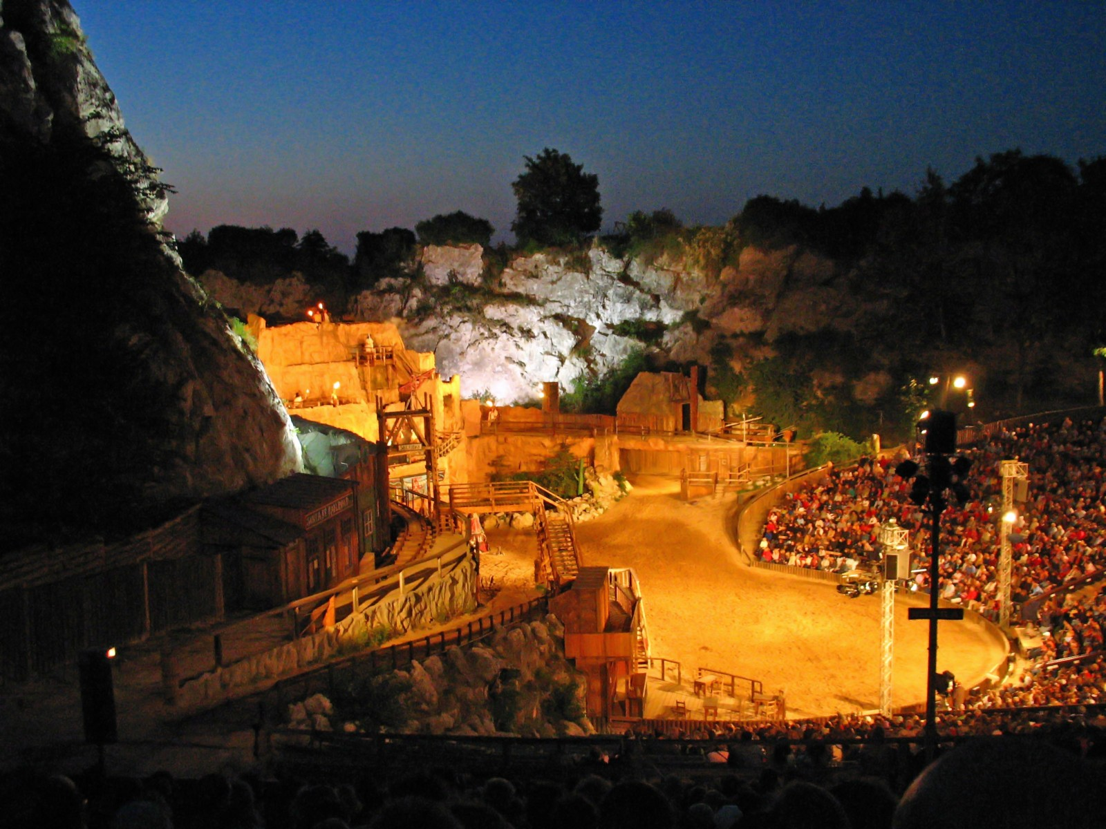 Twilight during a perfomance at the Karl-May-Spiele (an open-air theatre) in Bad Segeberg, Germany